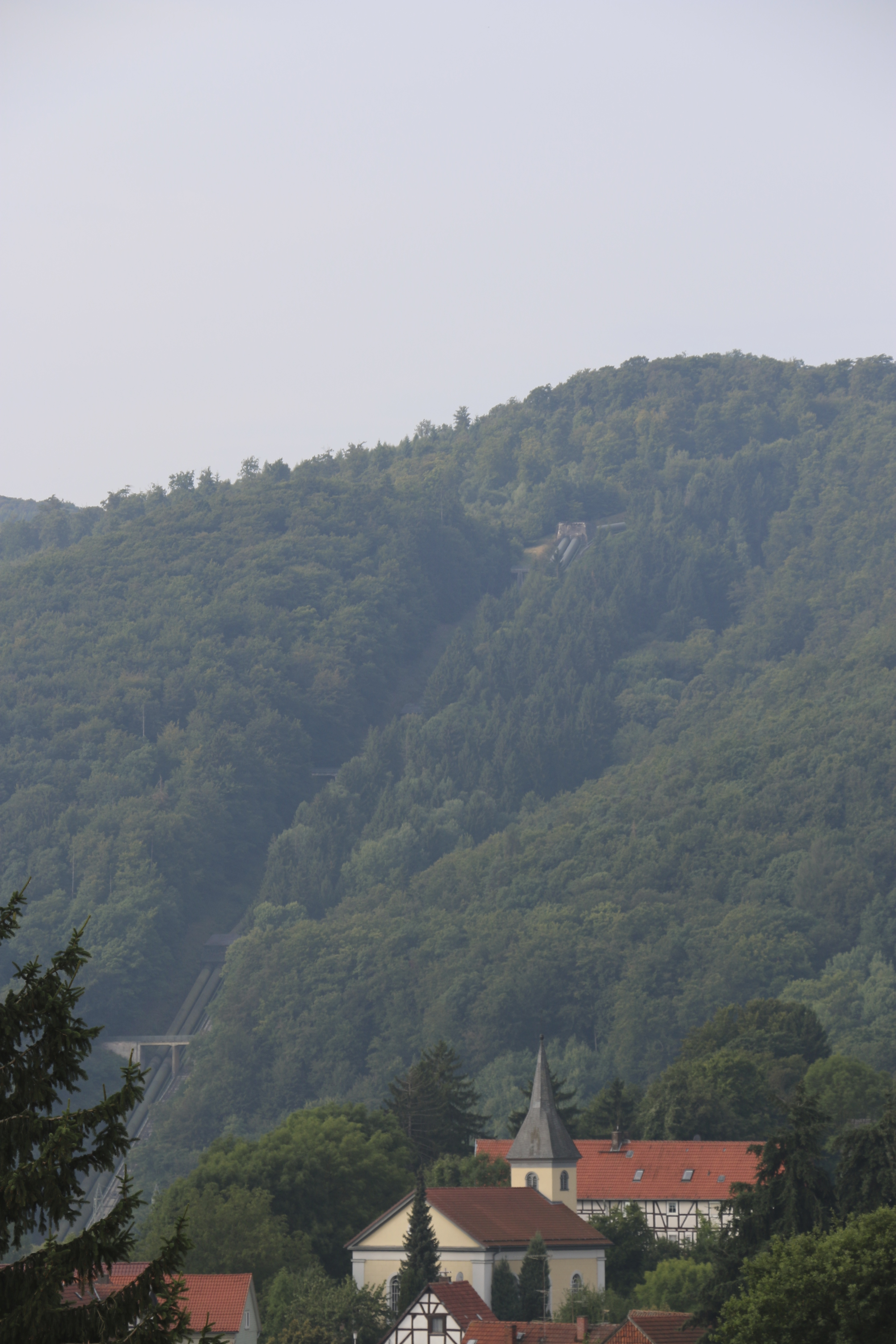 Peterskopf with Cablecab and tubes